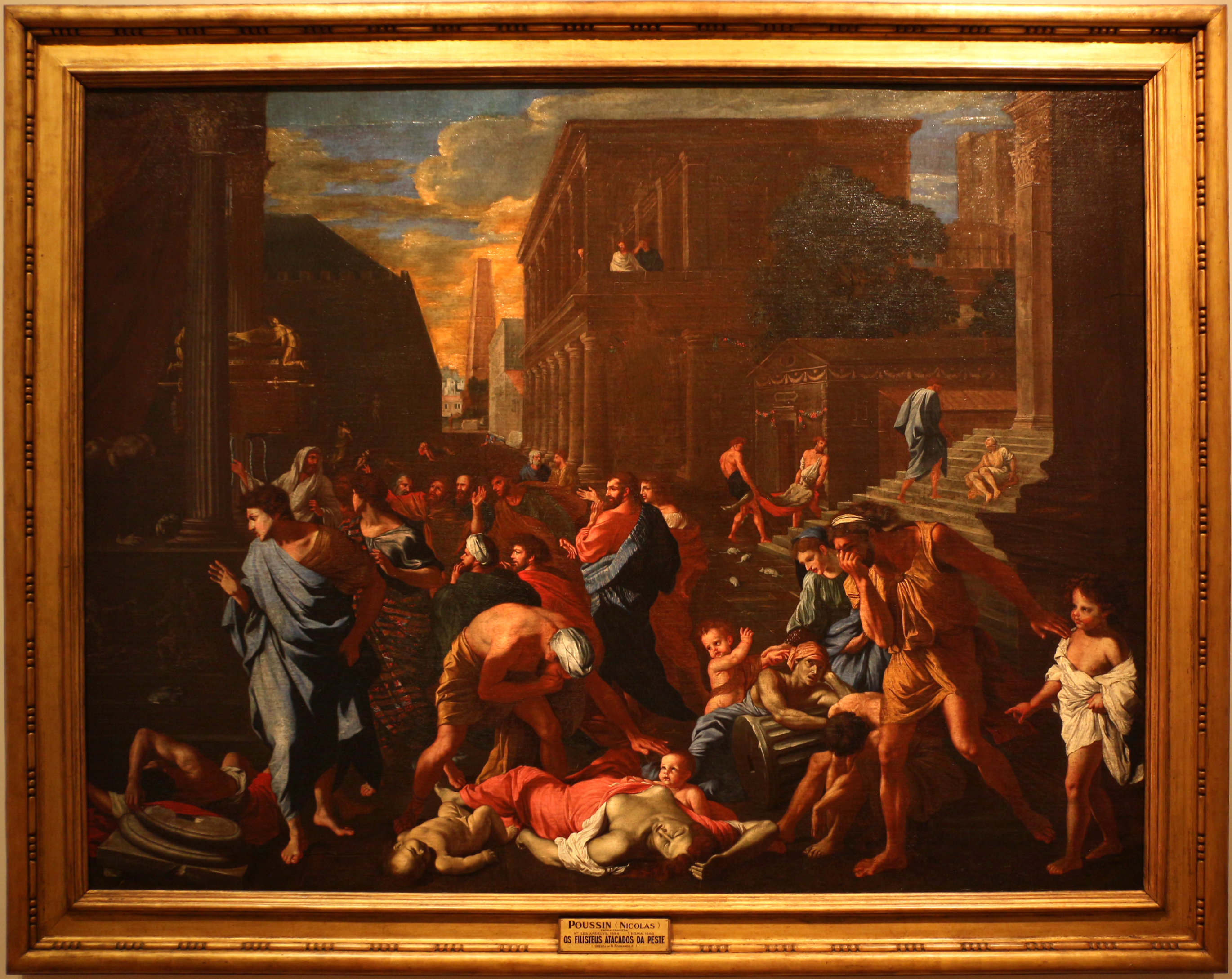 French paintings in the Museu Nacional de Arte Antiga